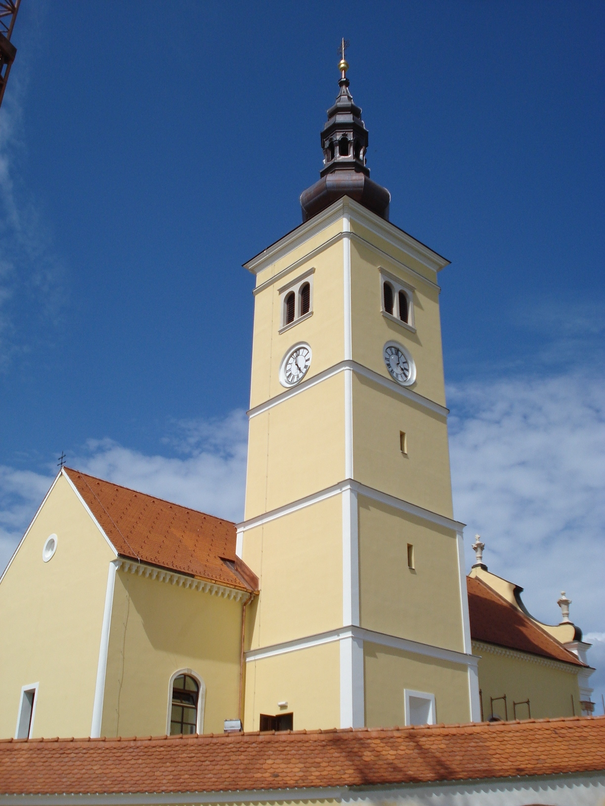 Saint George's Church in Sveti Juraj na Bregu, Medjimurje County, Croatia - south viewHrvatski: Crkva sv. Jurja u Svetom Jurju na Bregu, Međimurska županija, Hrvatska - južna strana